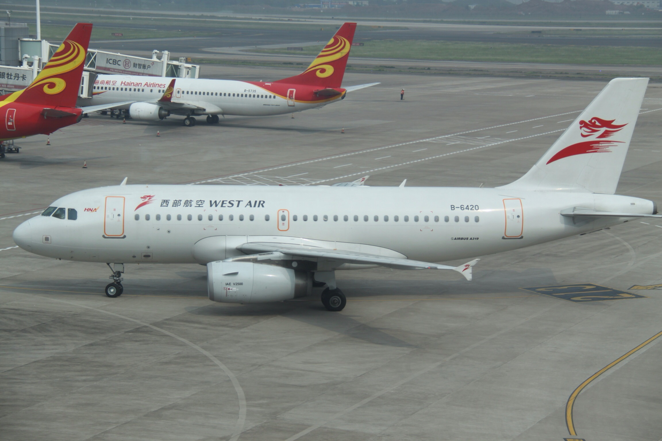 At Chongqing Jiangbei International Airport